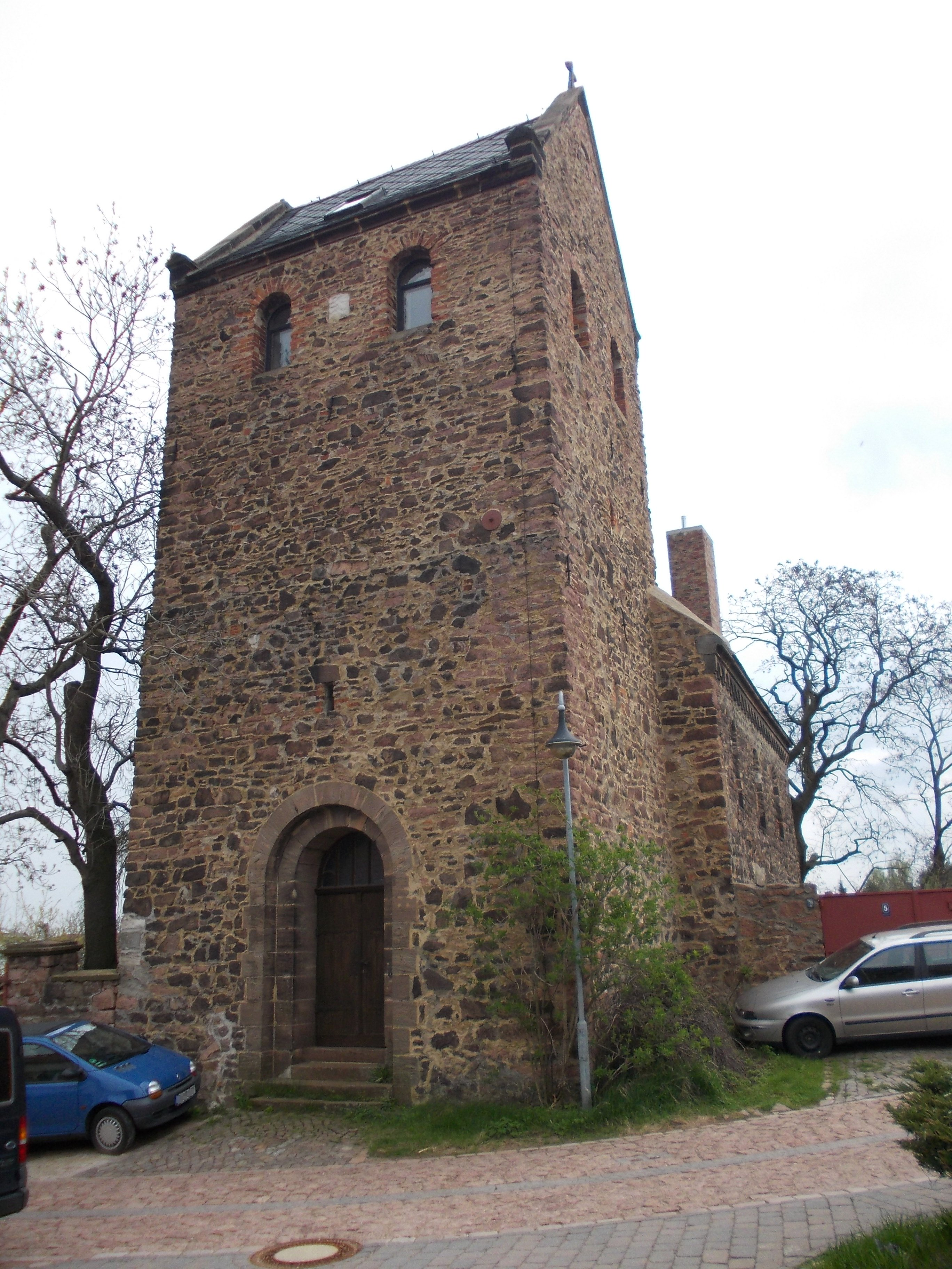 Kaltenmark church (Petersberg/Saalekreis, Saxony-Anhalt)